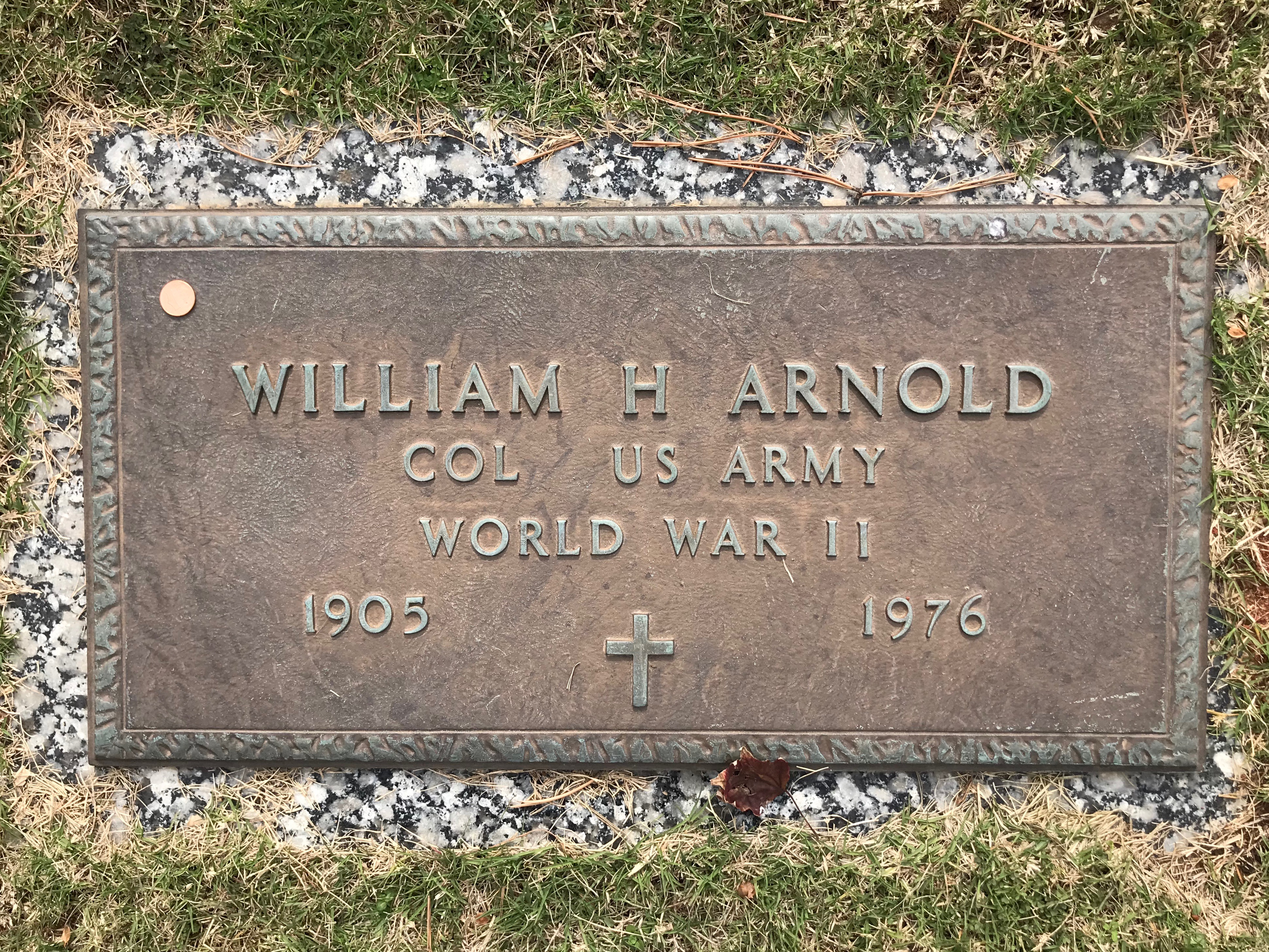 Billy Arnold 1930 Indianapolis 500 Winning Driver Gravestone. Resurrection Cemetery 7801 NW Expressway St Oklahoma City, Oklahoma County, Oklahoma, 73132 Plot: Section 10, Block 3, Lot 5, Space 1